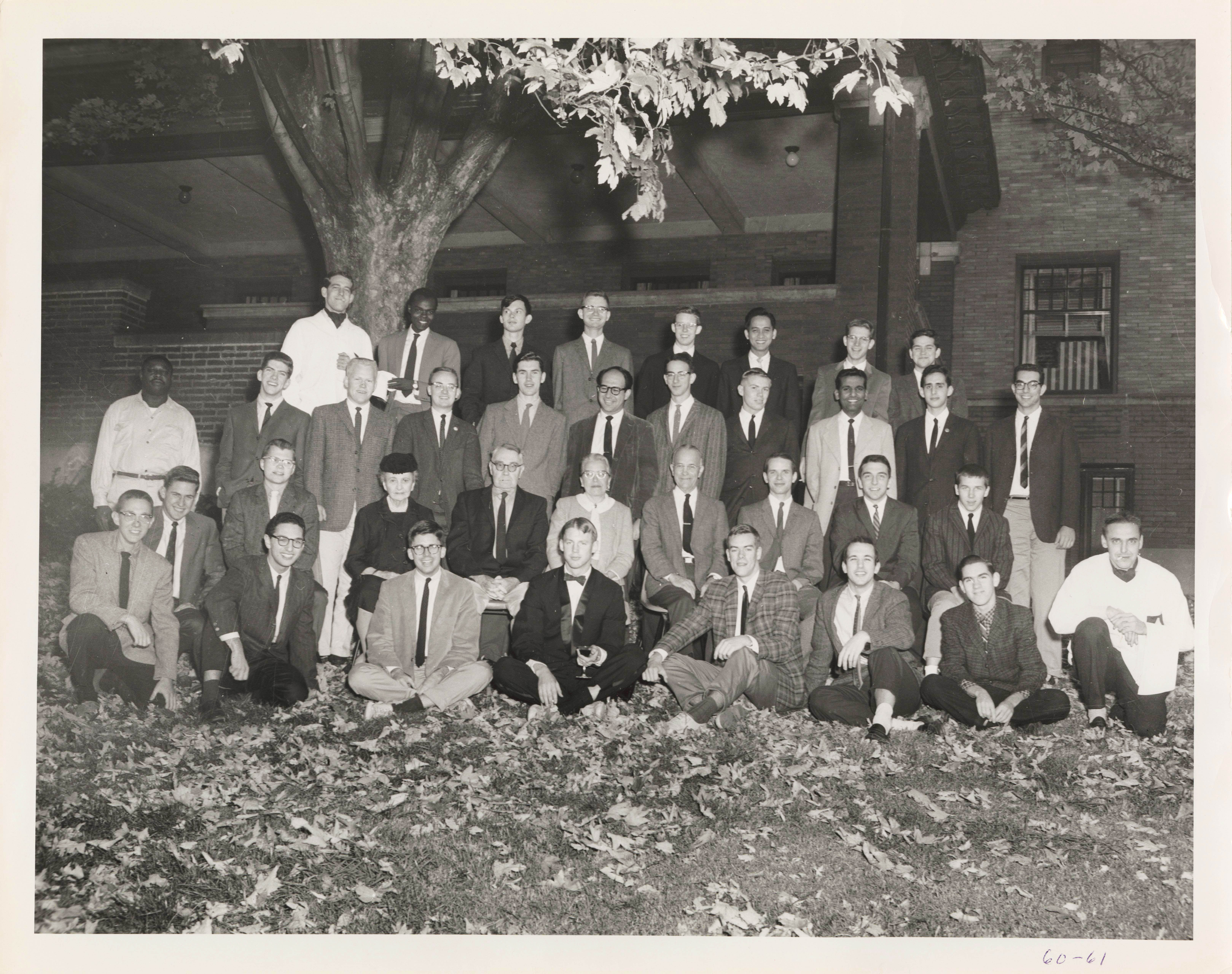 Photograph of Telluride House membership in the 1960-61 academic year. Published in 1961 in The Cornellian Yearbook, but most likely taken in the fall of 1960 because of the foliage on the ground and since George Sabine (who died in January 1961) is present in the photograph. "Public Domain in the United States, Google-digitized" on the Hathi Trust: coo.31924078965849. Accompanying text: TELLURIDE First row: Jonathan Brezin, Abram Shulsky, Clifford Ireland, Thomas Martin, Douglas Bailey, McIntyre Burnham, Carl Bender, George Wehmeyer. Second row: Peter Mogielnicki, John Hoskins, Miss Francis Perkins [sic], Dean George Sabine, Mrs. R. MacLeod, Mr. E. M. Johnson, Douglas Martin, Michael Davidson, Kenneth Pursley. Third row: Willie West, Fraser MacLean, Paul Weaver, John Heineman, Malcolm Alexander, Edward Levin, James Hedlund, Jerry Smith, Franklin Ahimaz, Robert King, Carl Apstein. Fourth row: Daniel Hall, Steven Machooka, Klaus Herdeg, William Singer, Steven Coombs, Florentino Vicente, Robley Williams, Allen Bush. Absent: Christopher Bruell.